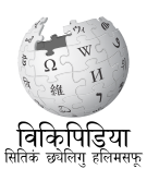 Wikipedia logo 2.0